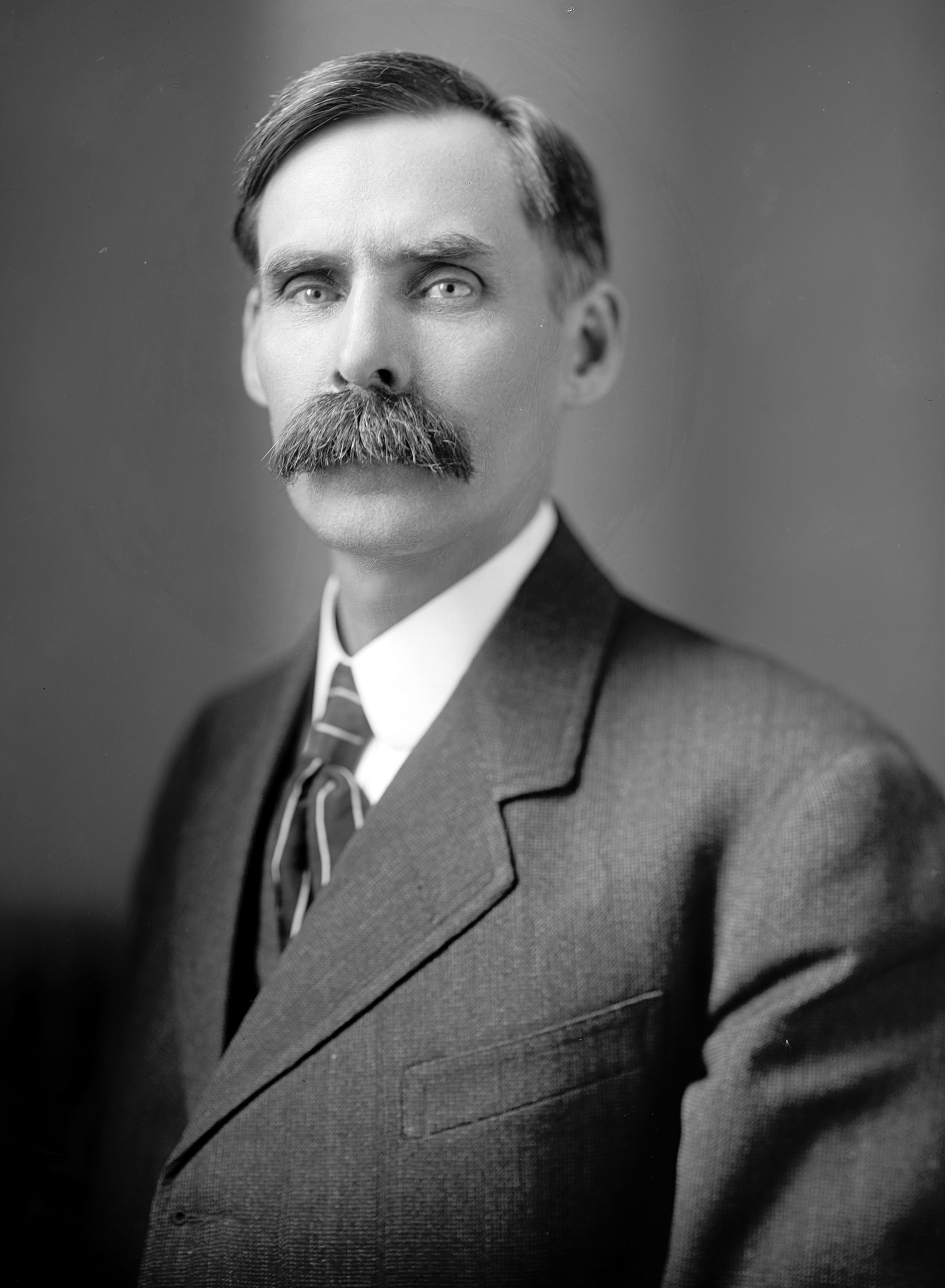 Andrew Volstead, US Representative from Minnesota